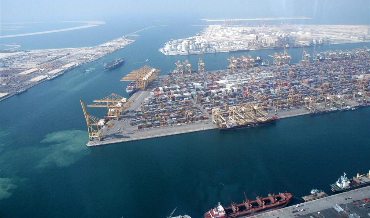 Port of Dubai Emirate located on Jebel Ali district.